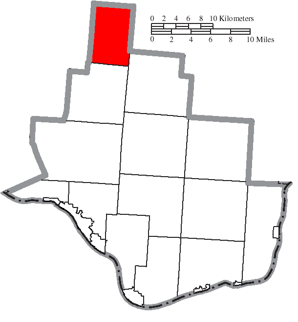 Map of the municipal and township boundaries of Lawrence County, Ohio, United States, as of the 2000 census, with the location of Washington Township highlighted. Township borders are shown only in unincorporated areas in order to differentiate incorporated and unincorporated areas more clearly.